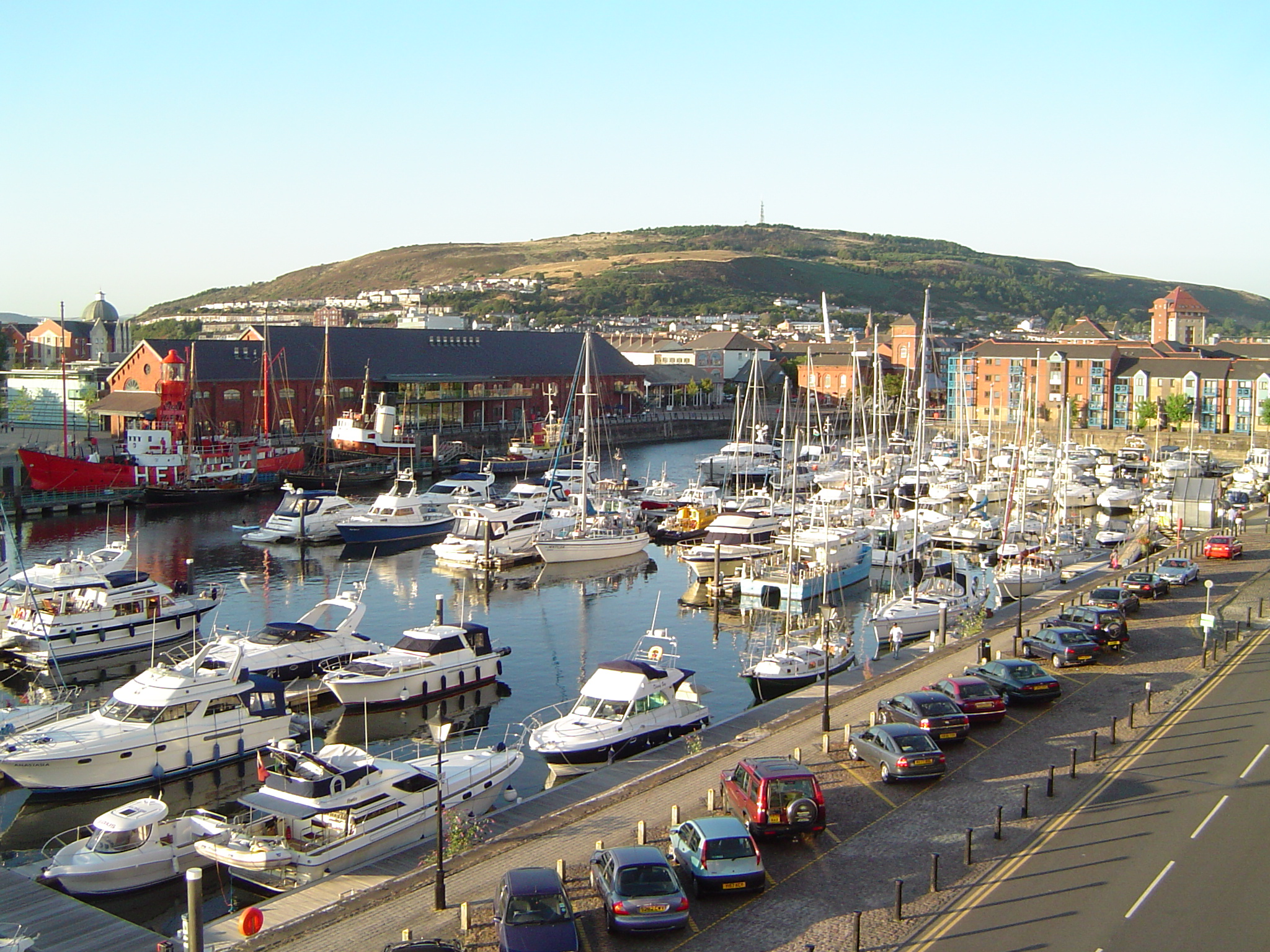 Another shot of the Marina taken from a fouth story flat on Trawler Road by Simon Morrison